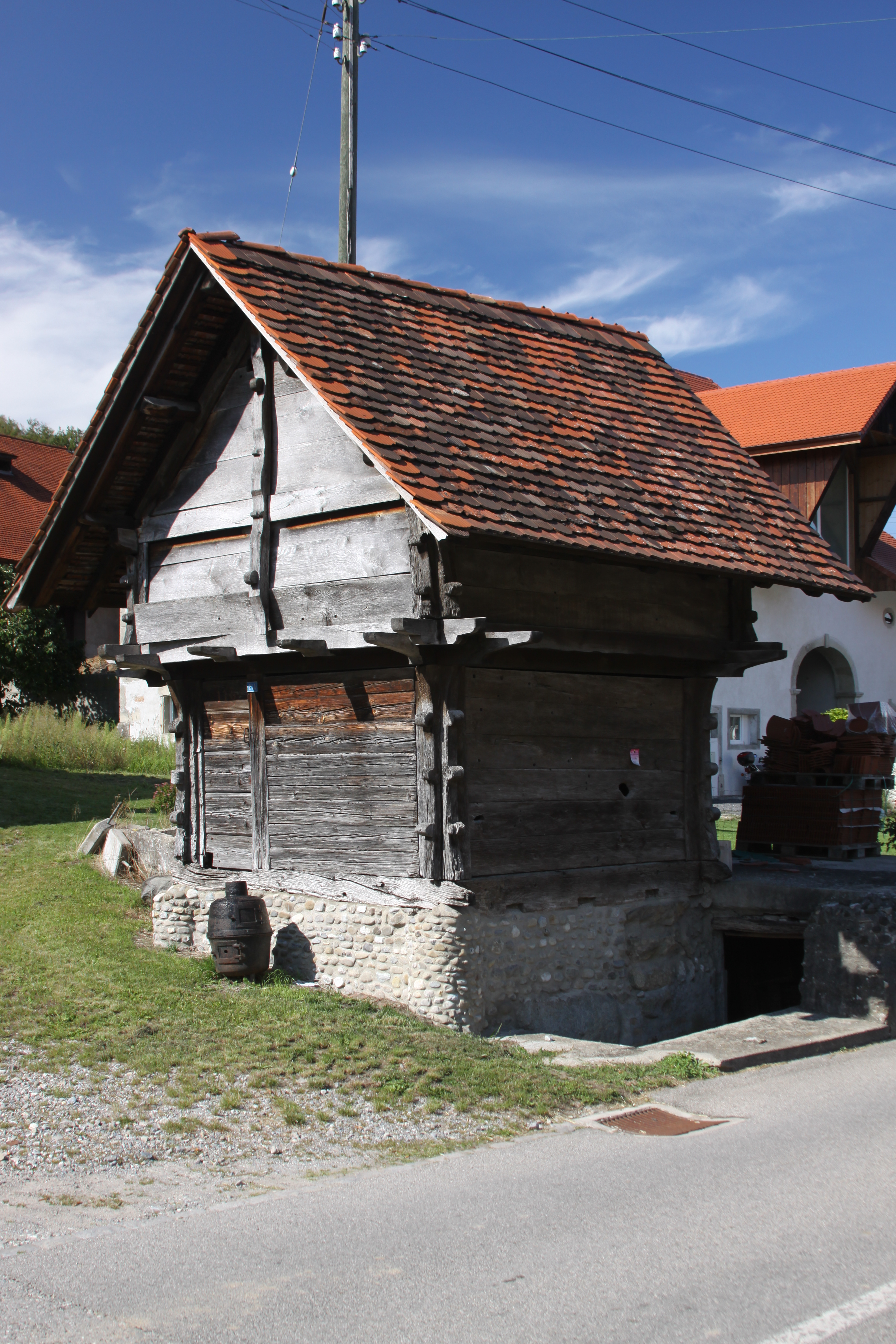 Granary, Route Du Centre 21A, Cheiry